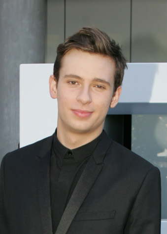 Flume (musician) at the ARIA Awards 2013 ceremony, 1 December 2013, Star Event Centre, Sydney